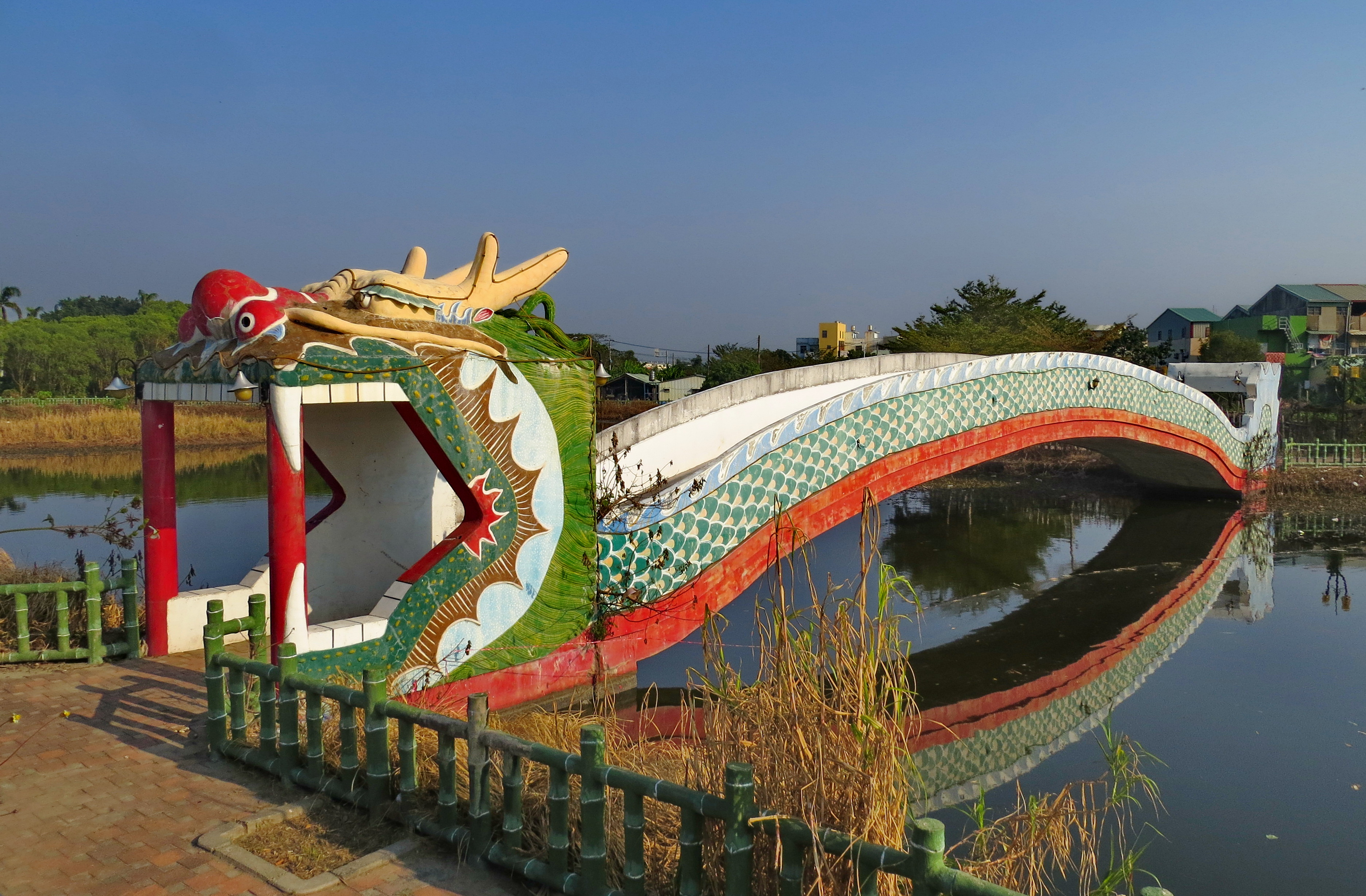 Yujing Riverside Park, Dalin, Chiayi, Taiwan.